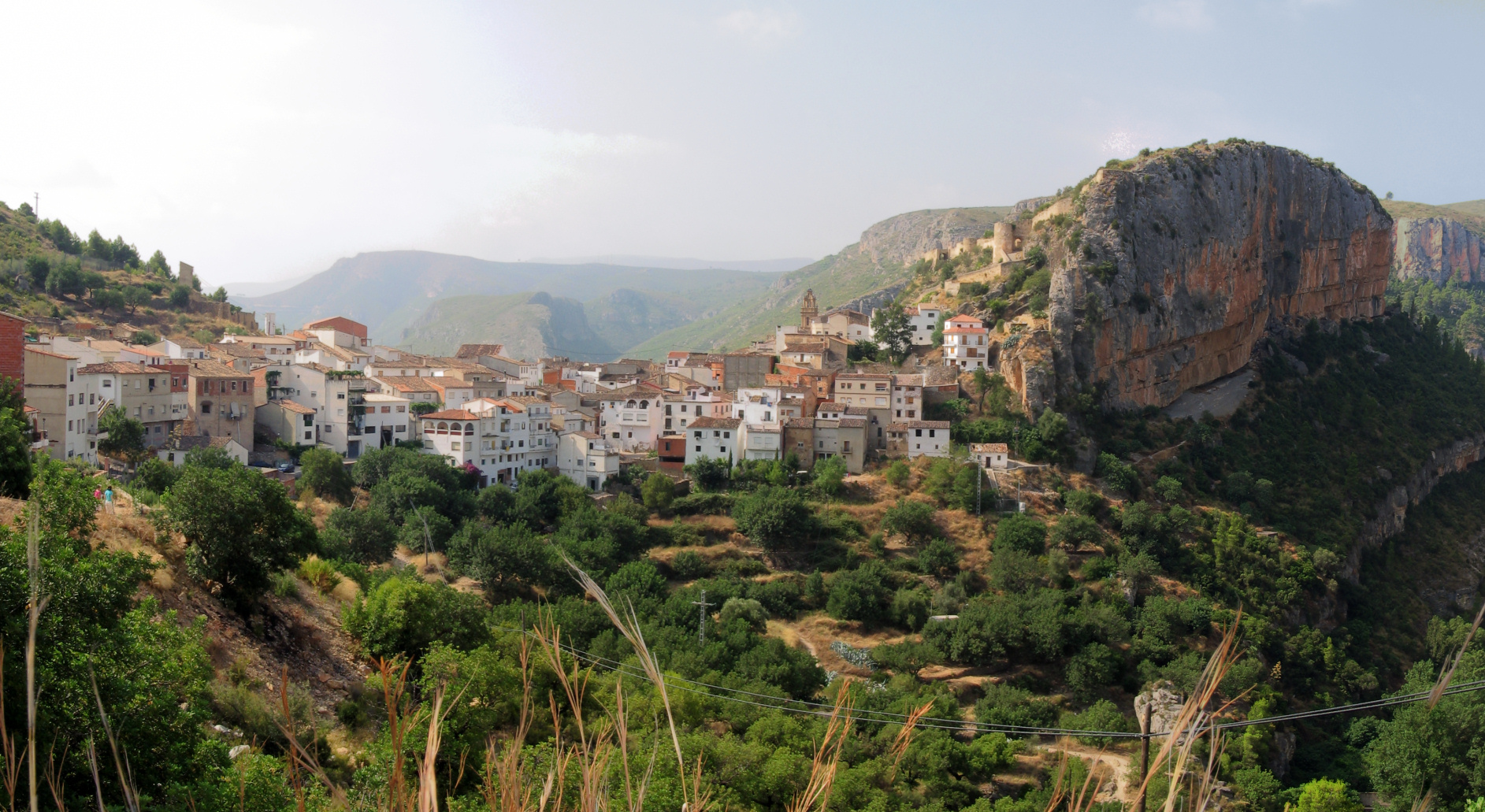 The village Chulilla approx. 50km east of València (Valencian Country).